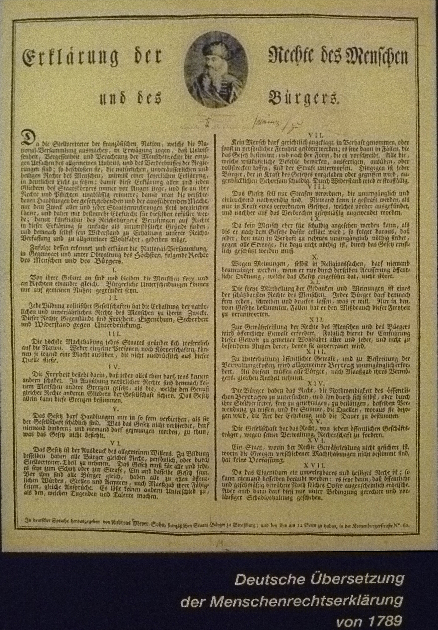 German translation of the Declaration of the Rights of Man and the Citizen (1789)